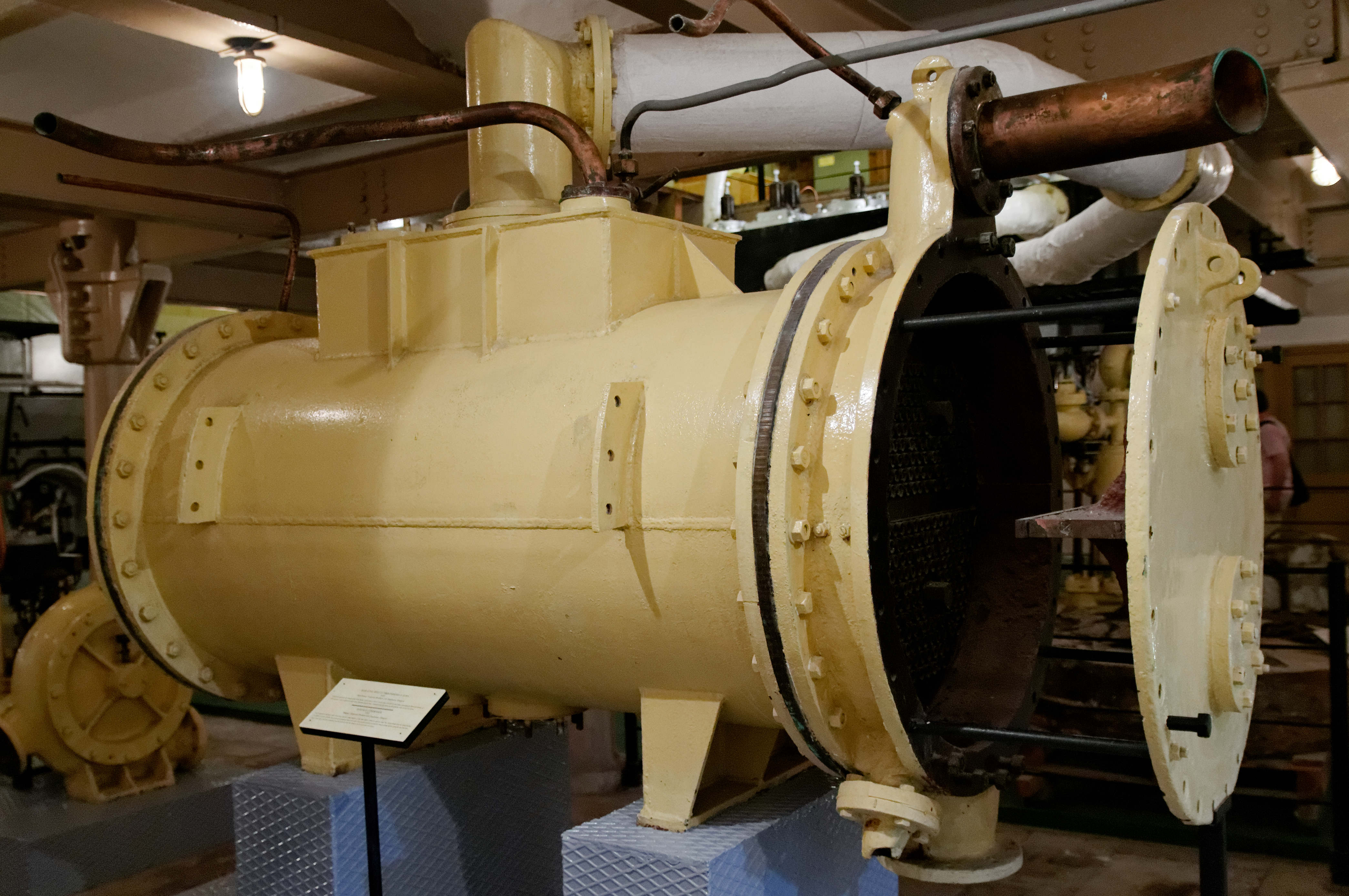 Surface condenser of grab hopper dredger Anadrian.